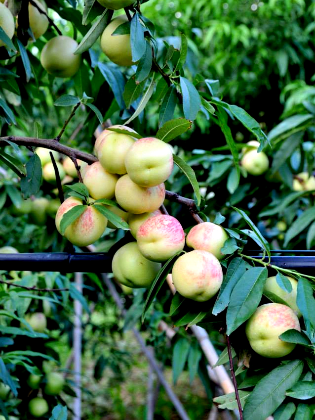 Sbergie in a orchard of Torregrotta, Italy.